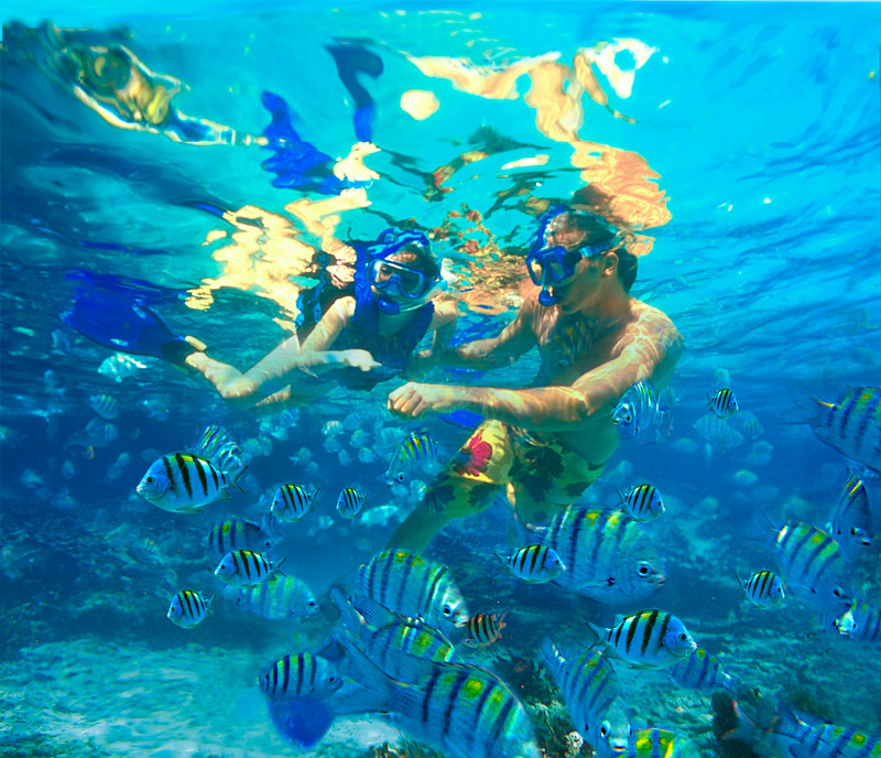 Snorkeling at Xel-Ha